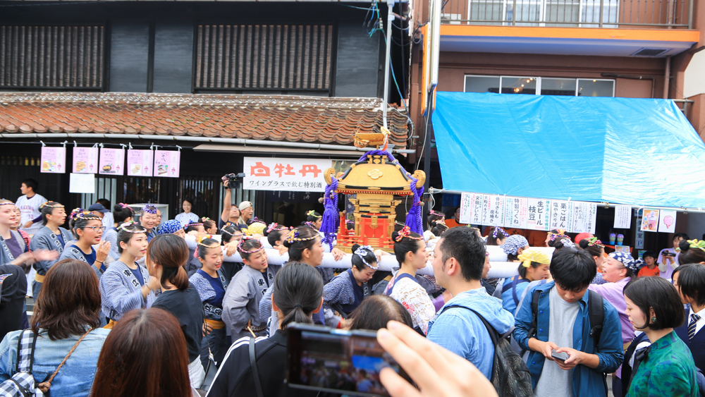 In the streets of Sake breweries in Saijo. Festival rally is a common sight.